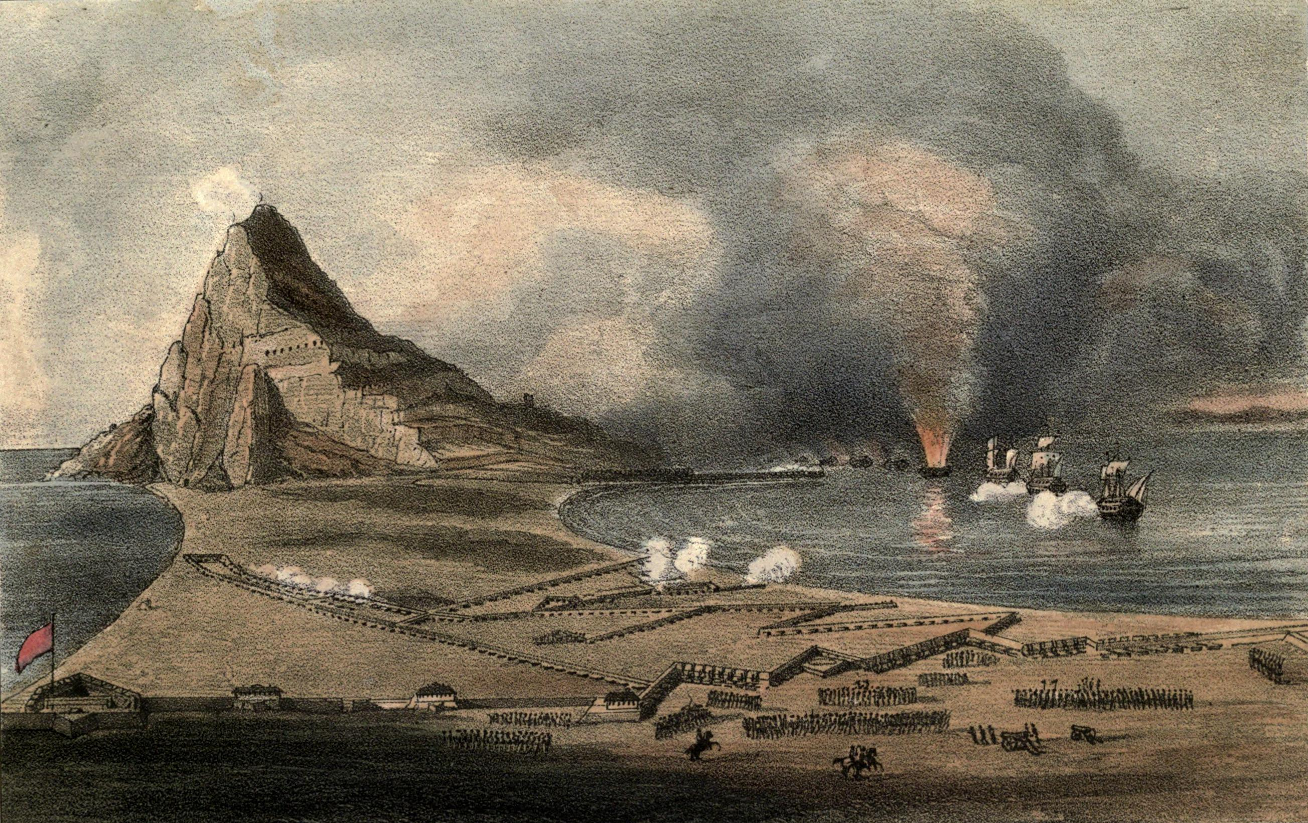 Twelfth Regiment of Foot. View of the north part of Gibraltar, and of the attack by land and sea, 13–14 September 1782.